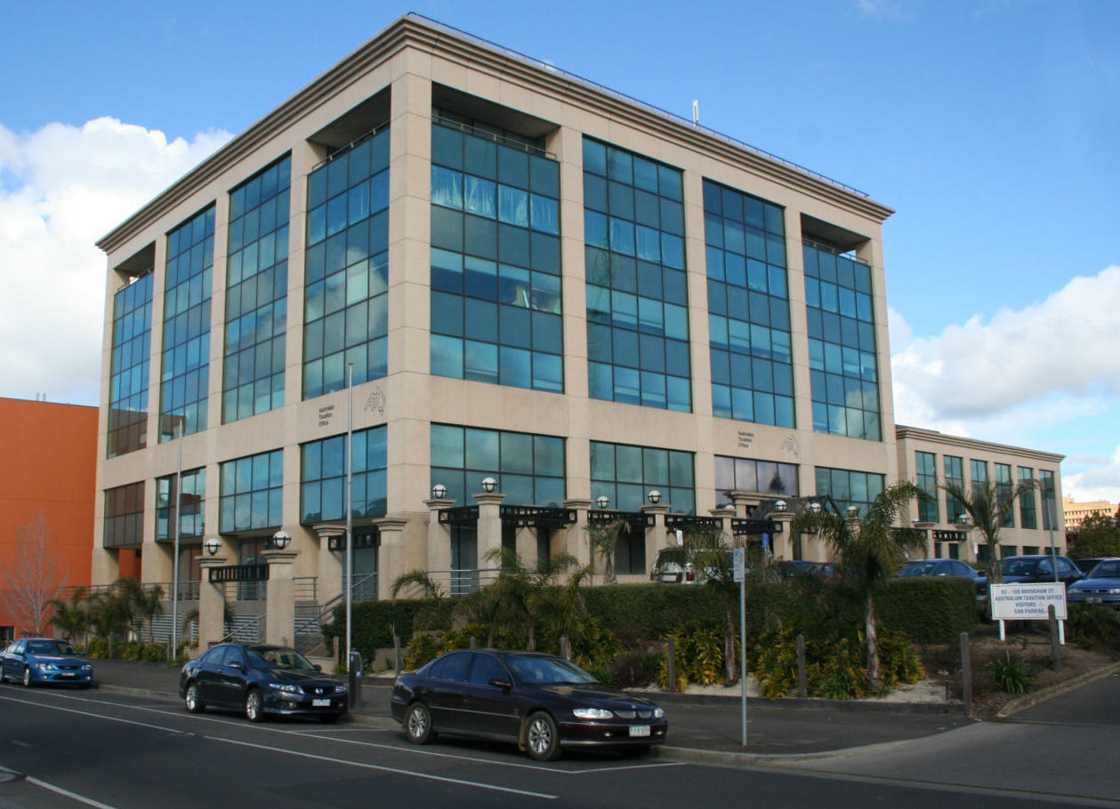 Farrow Centre, now occupied by the Australian Taxation Office - Geelong, Victoria, Australia